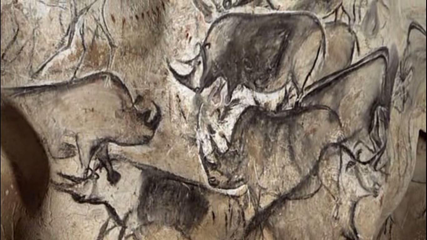 Rhino drawings from the Chauvet Cave